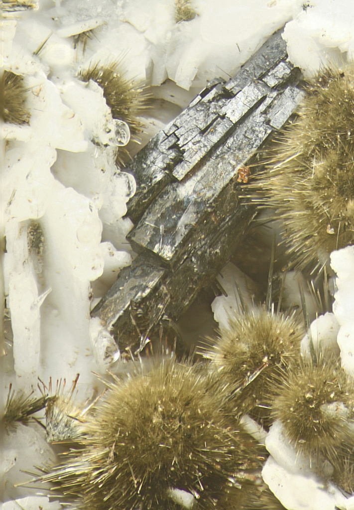 Birnessite, Rancieite, Aegirine, Opal, Microcline (picture width: 4.7 x 6.8 mm) Locality: Demix-Varennes quarry, Saint-Amable sill, Varennes & St-Amable, Lajemmerais RCM, Montérégie, Québec, Canada Original description: Pseudomorph of birnessite/ranciéite probably after serandite. (Thanks to Laszlo Horvath for information regarding the ranciéite.) The microcline is white. The olive green "urchins" are aegirine - very typical for STA. There are a few small colorless droplets of bright green fluorescent opal on the microcline.